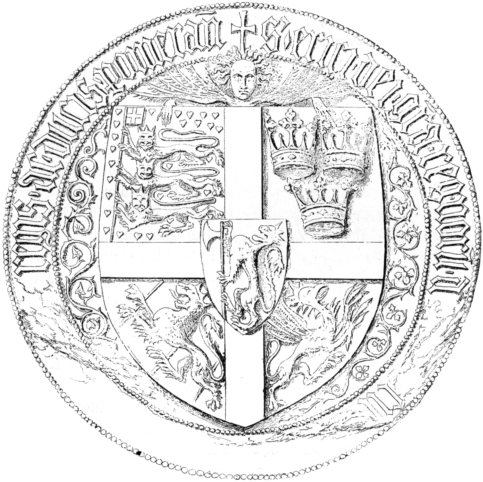 Seal of King Eric of Pomerania, king of Denmark, Norway and Sweden.